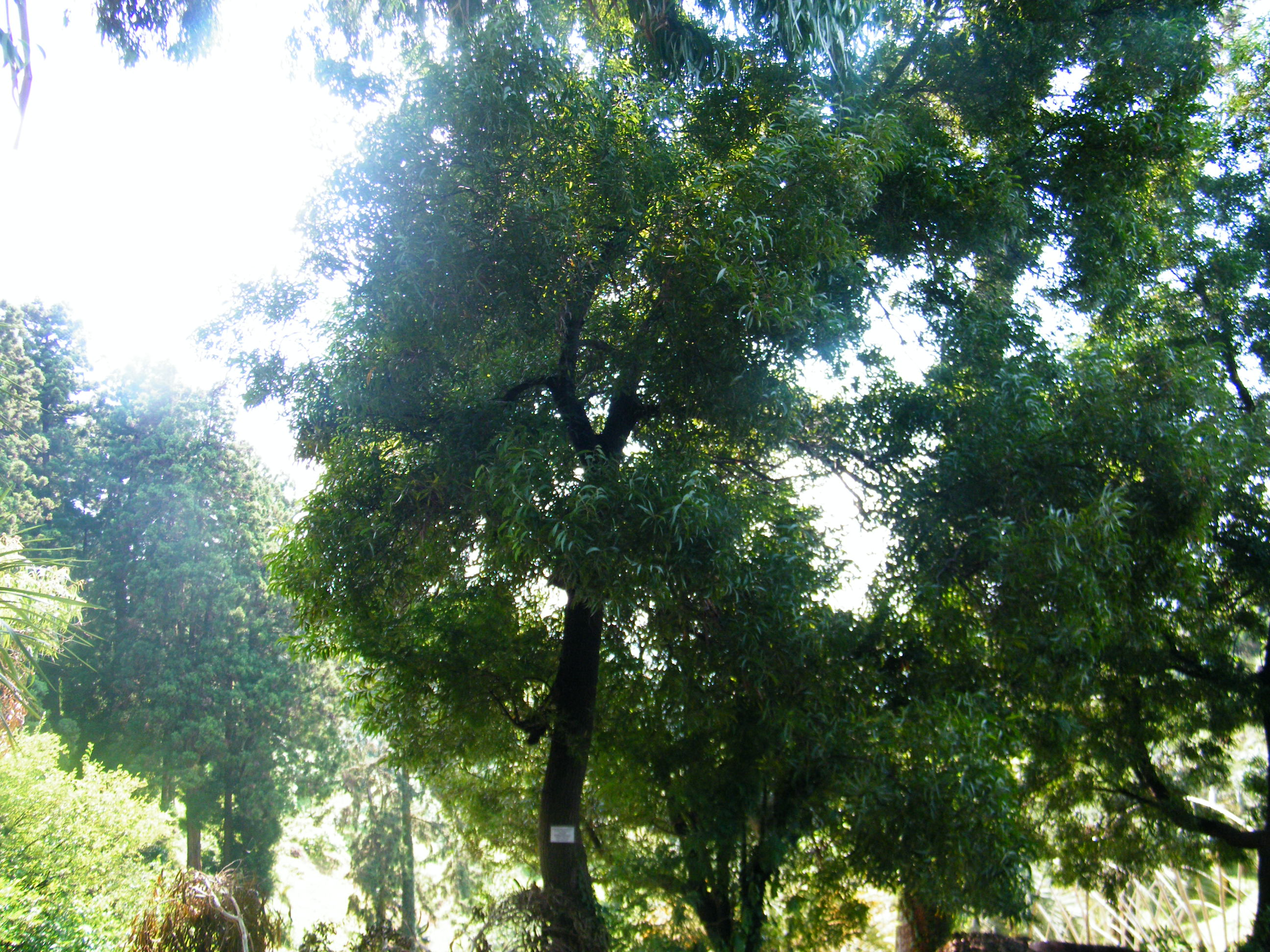 Acacia melanoxylon in Batumi Botanical Garden